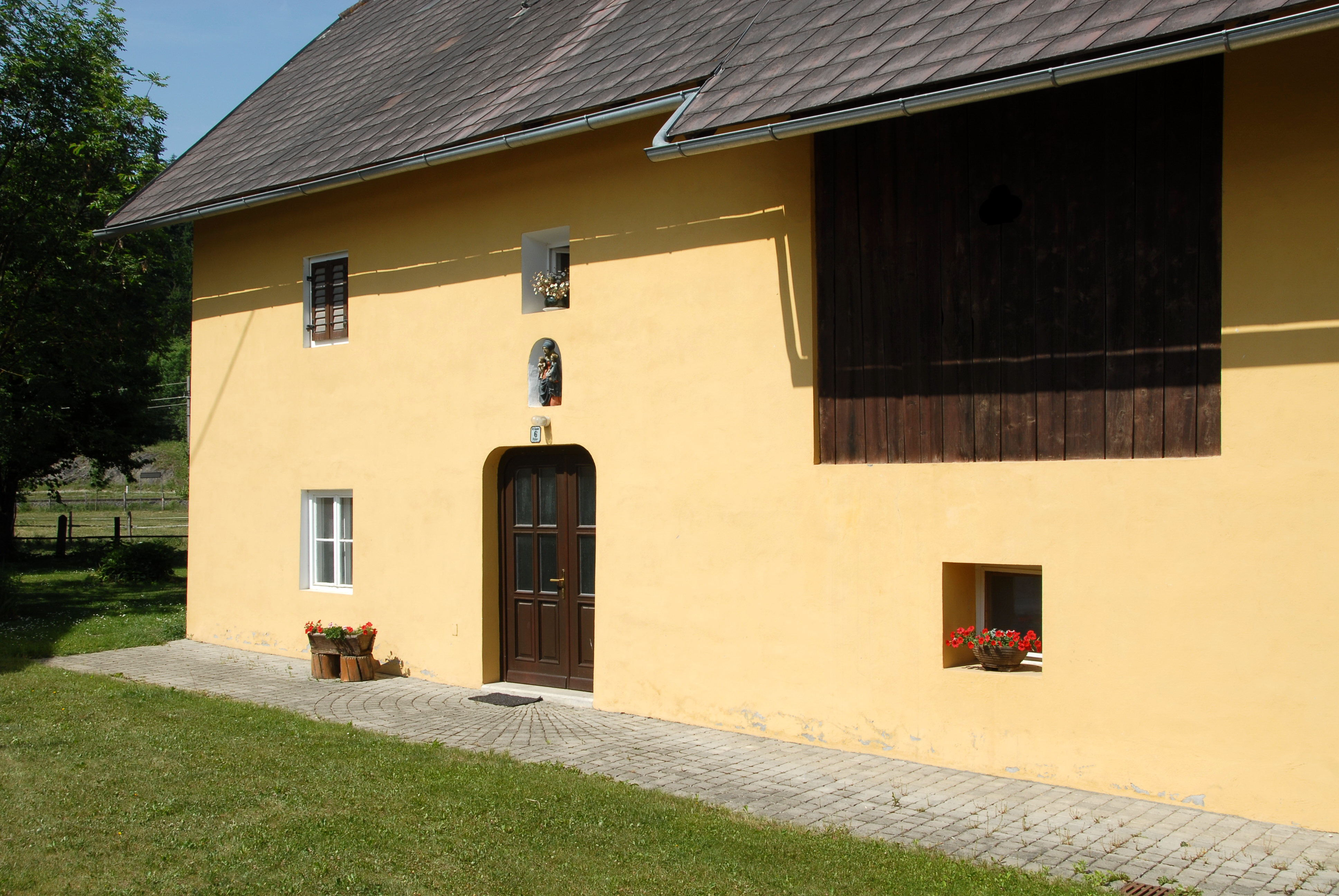 Old farmhouse at Unterglandorf No. 6 Fischer in the community of Saint Veit by the Glan, Carinthia, Austria